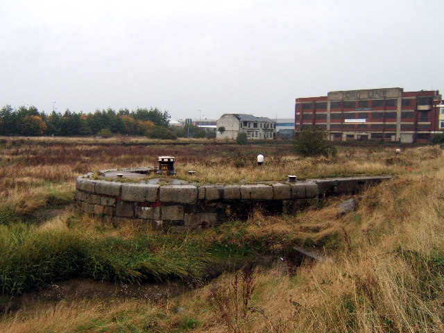 The Old Lord Line Building. Picture taken looking over the disused old docks towards the Lord Line building. As this site is just to the East of St Andrew's Quay retail park it will probably be redeveloped in the near future.